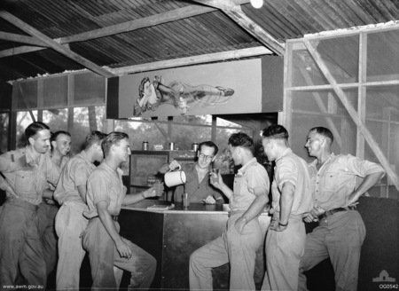 Some of No. 12 Squadron RAAF's aircrew at the bar of the canteen in the aircrew mess at Merauke